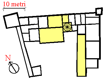 Plan of Issogne castle in Aosta Valley